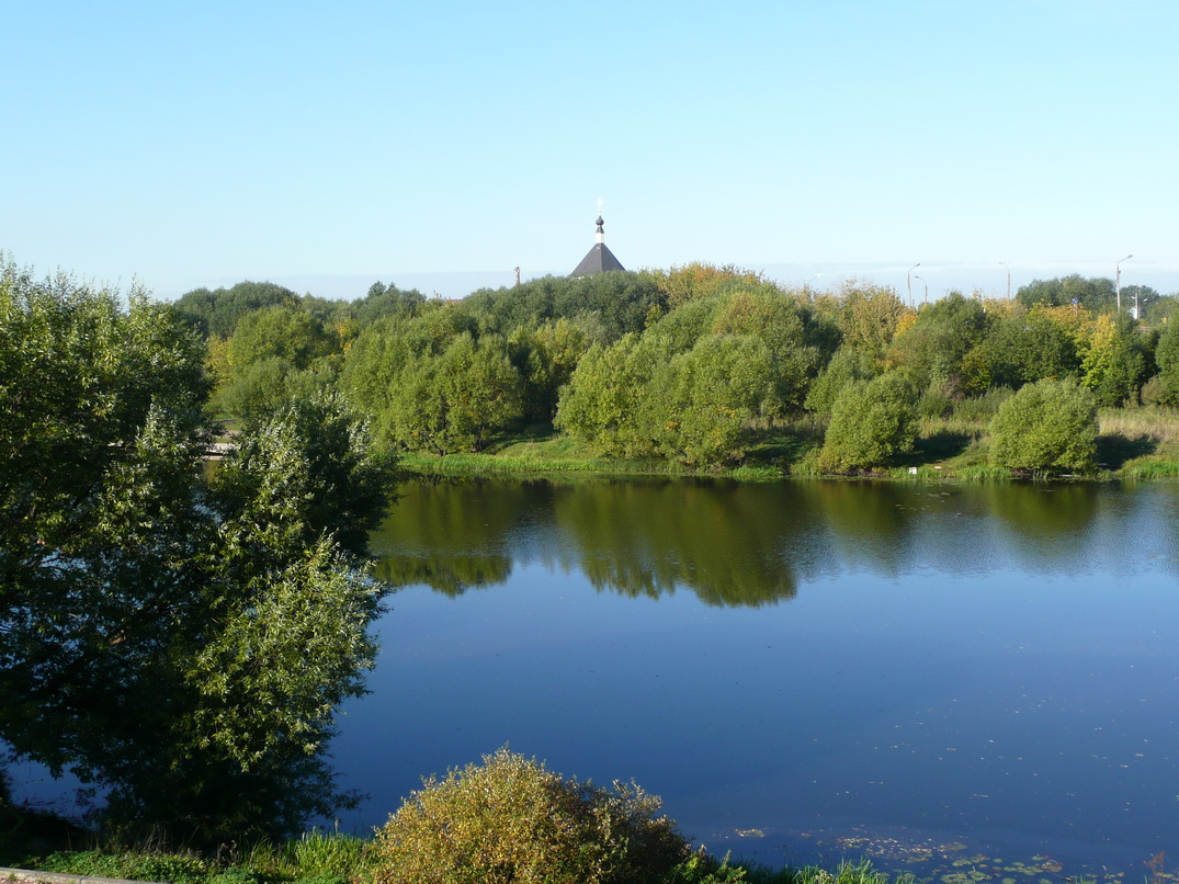 View towards Pokrovskaya Church across the Tmaka River